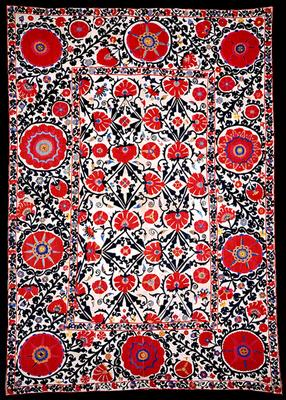 Image of a Suzani rug.